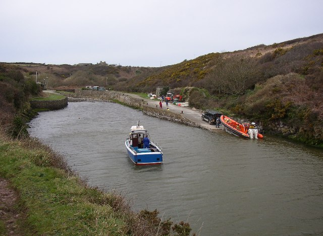 Porthclais, St David's. This is the harbour for St David's. This view is taken from approx. SM742240 looking north.